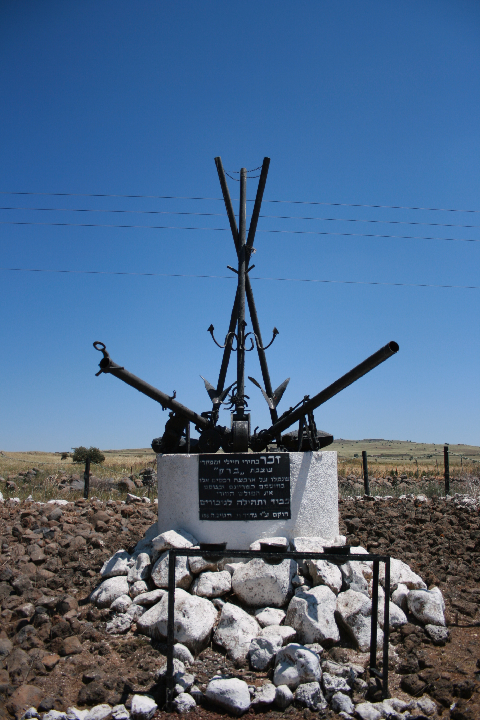 The monument of the Barak Brigade, Golan Heights.